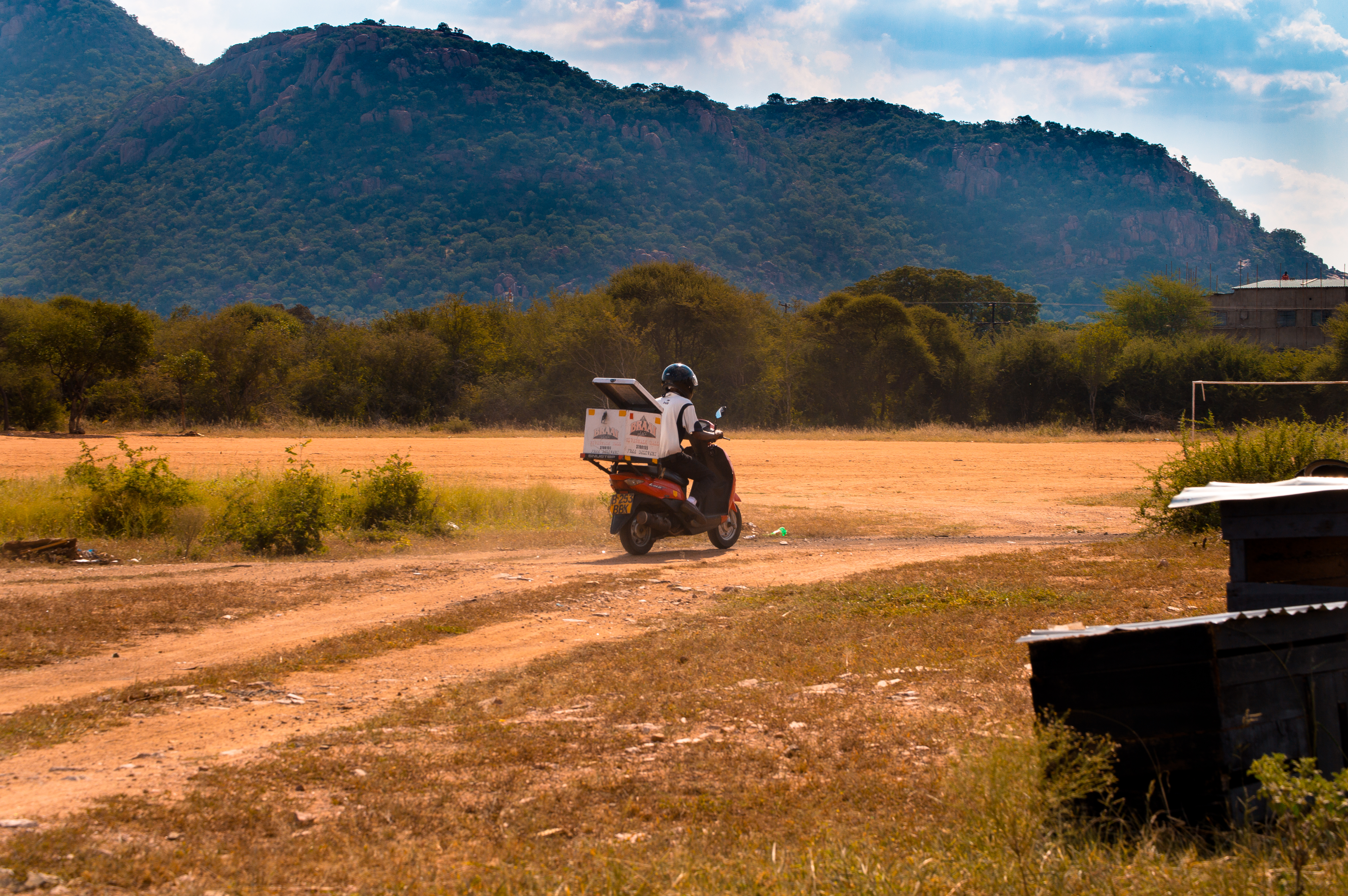 A man delivering pizza at Old Naledi This is an image with the theme "Africa on the Move or Transport" from: Botswana